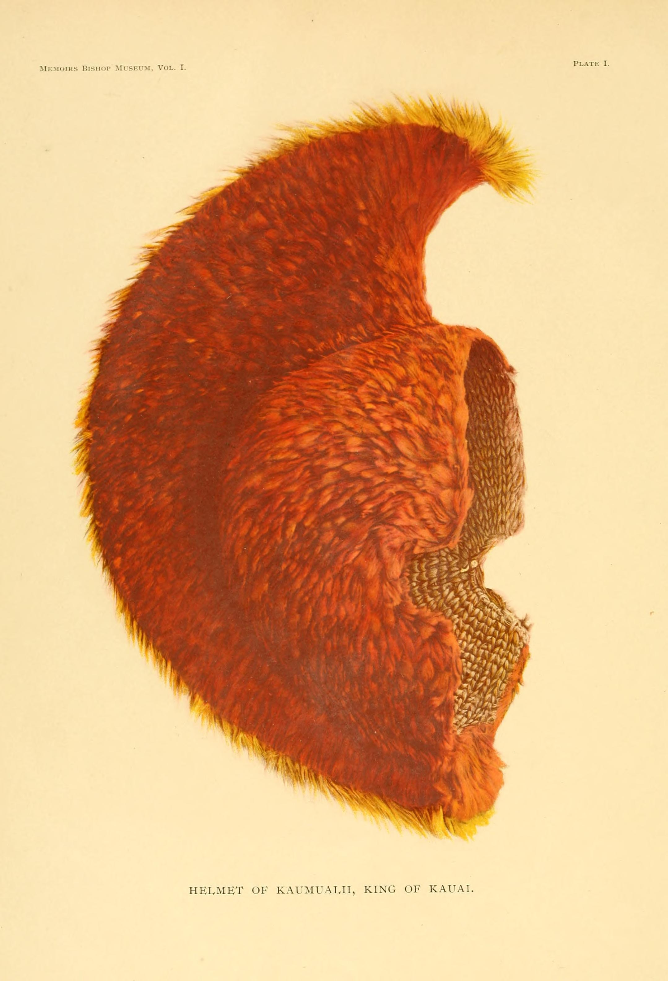 Mahiole of King Kaumualii of Hawaii. Printed in colors by Löwy, of Vienna, from a negative by the author.